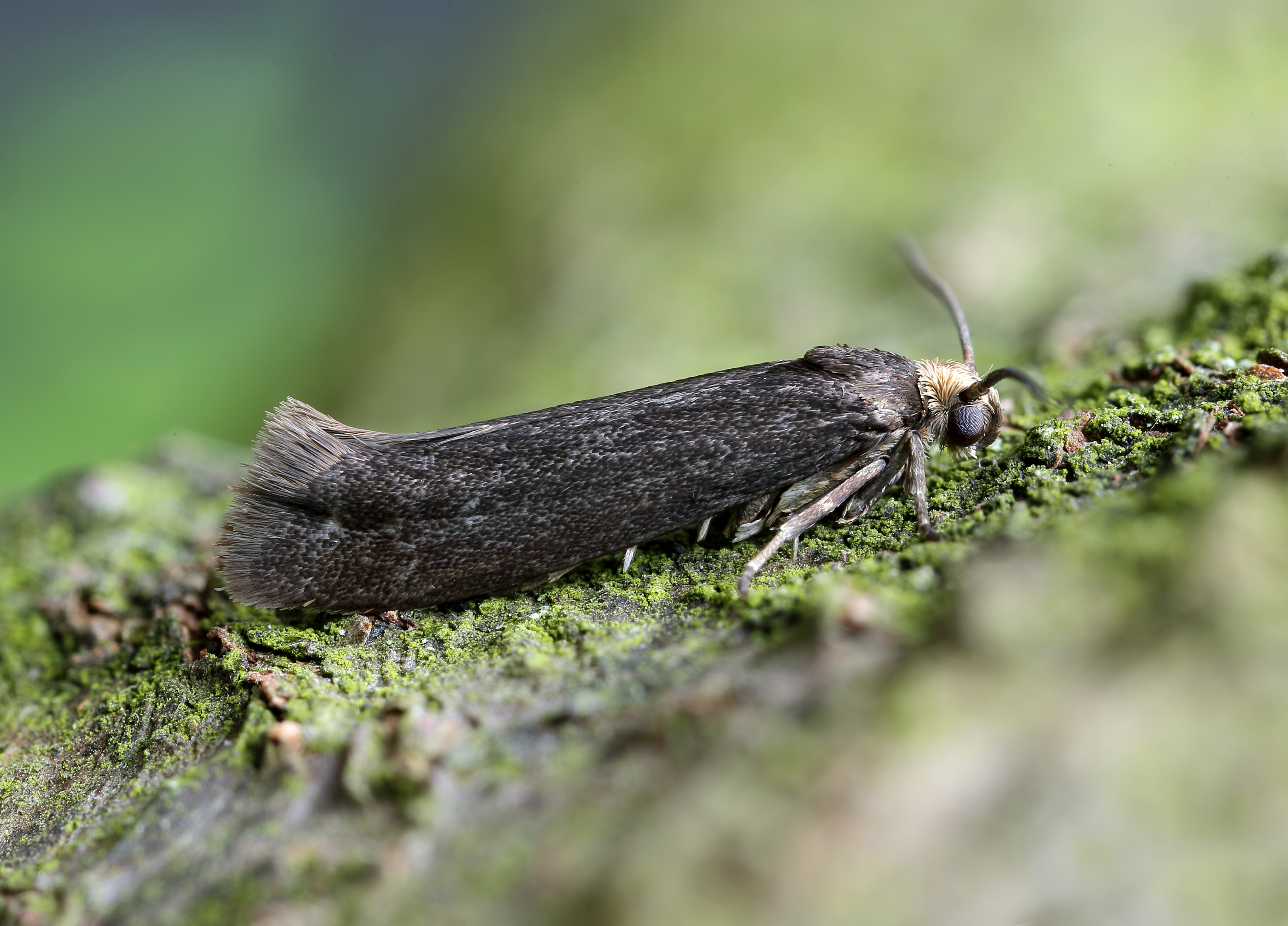 Prays ruficeps Garden Trap, VC37.